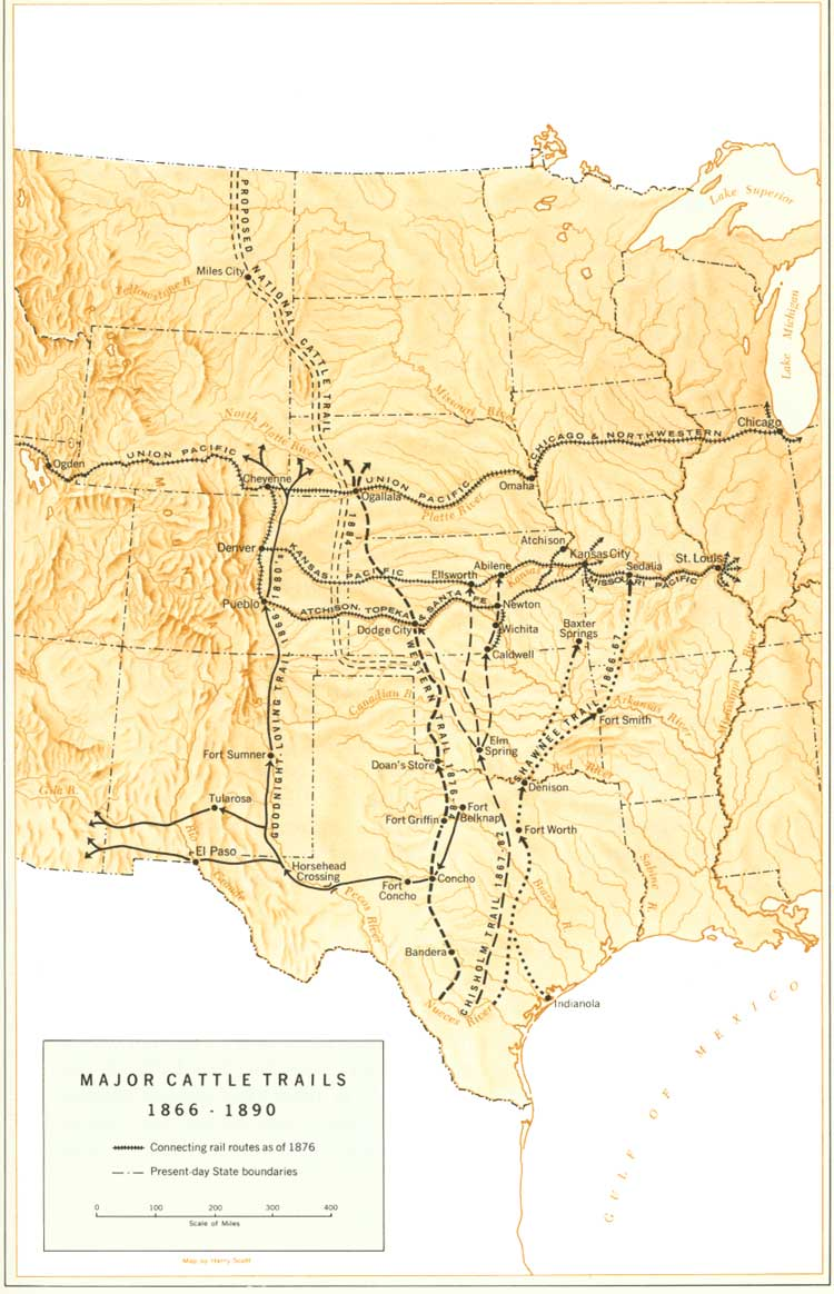 historical map of cattle drives north from Texas